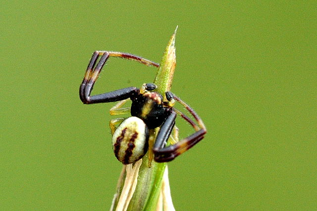 male Misumena vatia from Commanster, Belgian High Ardennes .